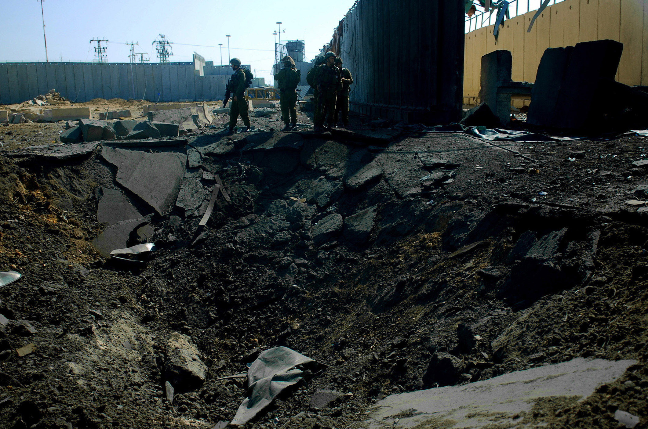 May 21, 2008 Pictured here are the remnants of a terror attack at the Erez Crossing where humanitarian aid is transferred, in which a massive bomb truck loaded with explosives was detonated.